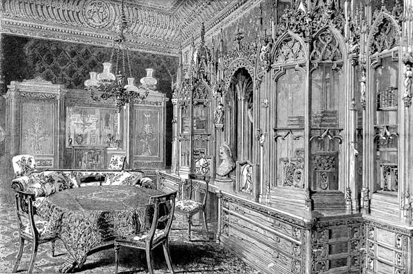 Prince Consort's Music Room, Buckingham Palace